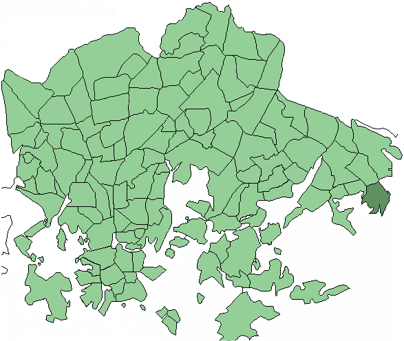 Sistricts of Helsinki, Uutela highlighted